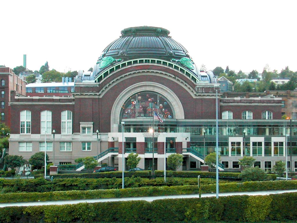 Court House, Tacoma Washington USA. Formerly Tacoma's Union Station.DSCN2856